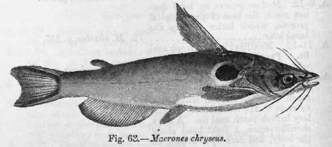 Macrones chryseus = Horabagrus brachysoma (Günther, 1864)